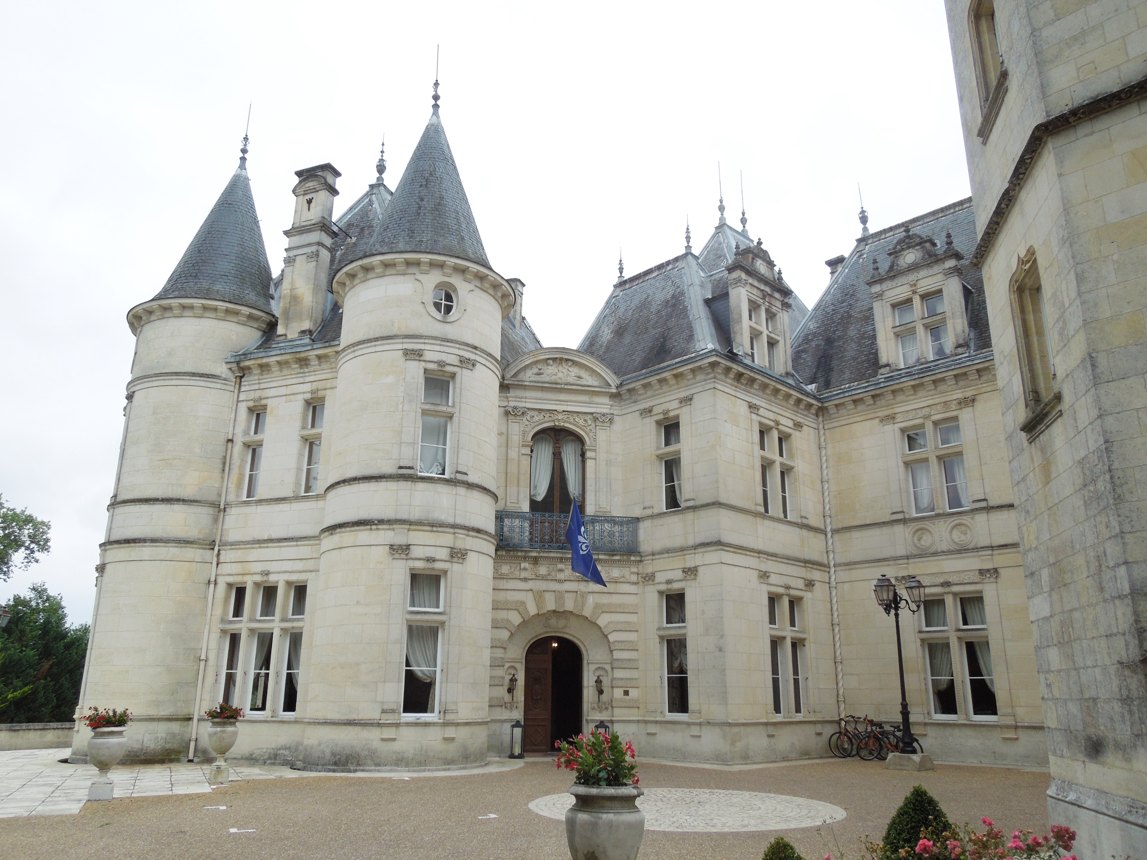 Chateau de Mirambeau, view of the southern wing and the courtyard on the eastern side